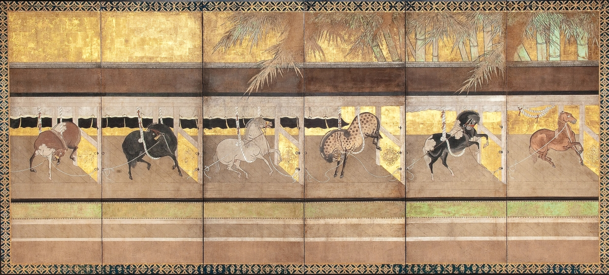 Uma-ya (Stable), ink, color and gold leaf on paper mounted as six-fold screen, c. 16th century Japan, Kanō school, Honolulu Academy of Arts